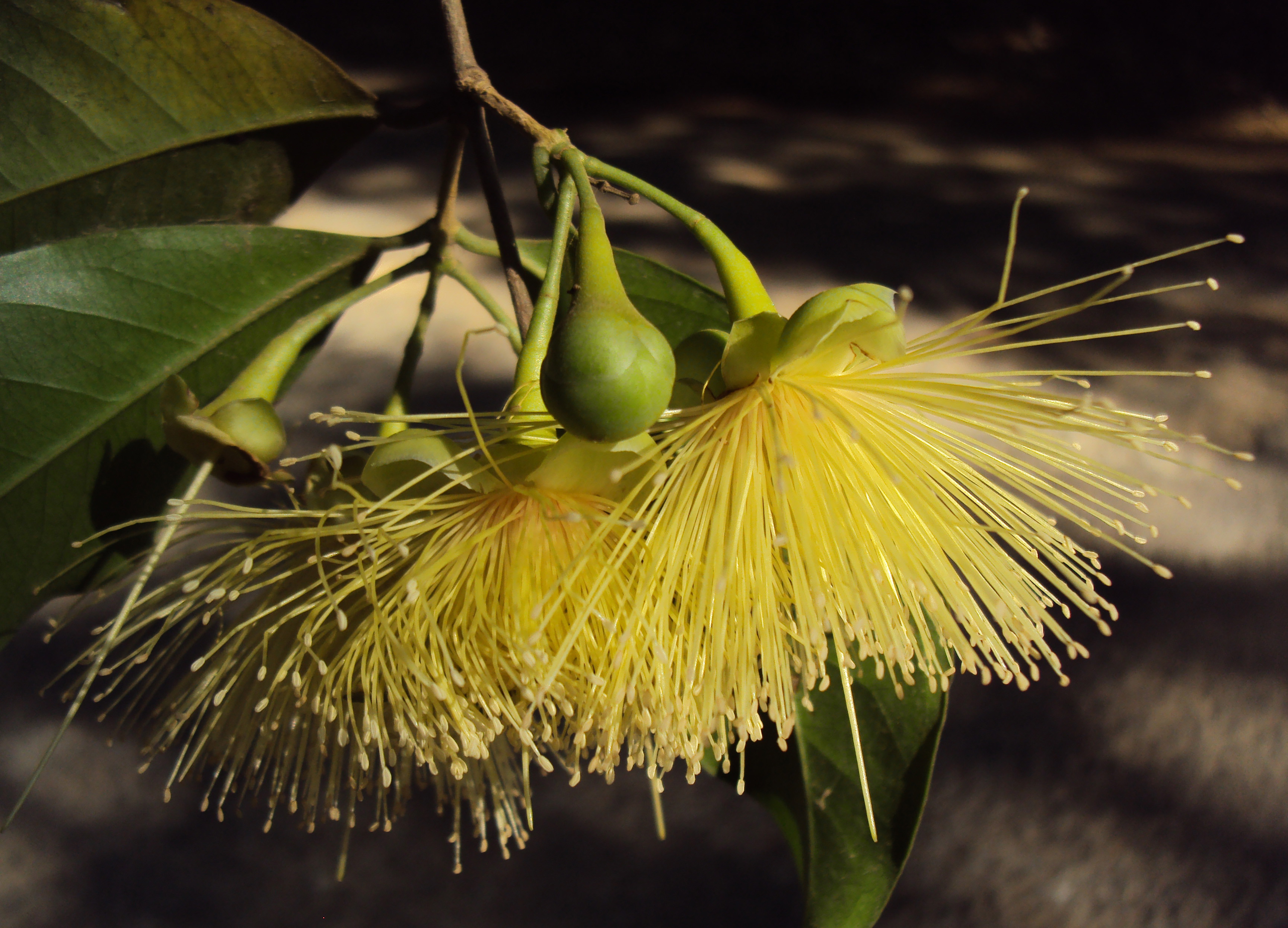 Syzygium laetum